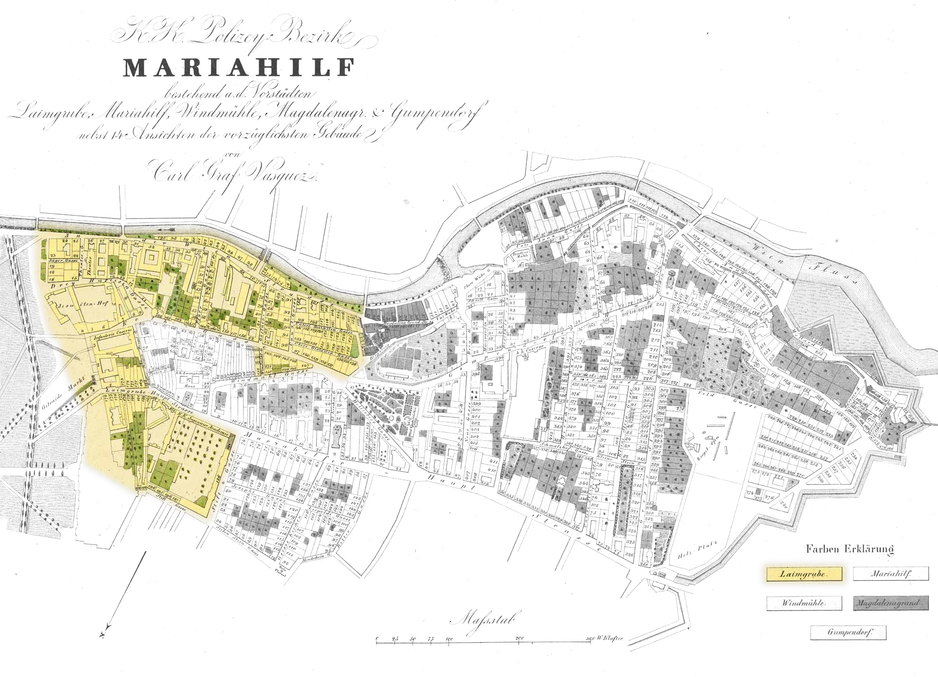 Map of Vienna / Laimgrube, approx. 1830